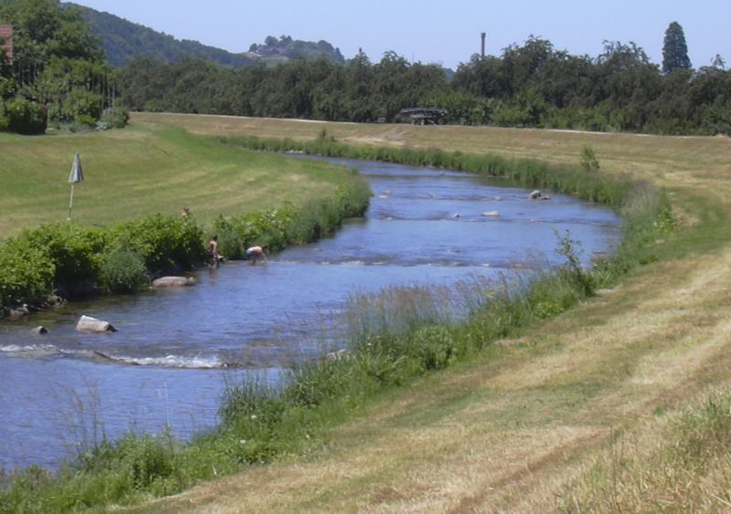 The river Rench near Lautenbach in the Black Forest, Germany